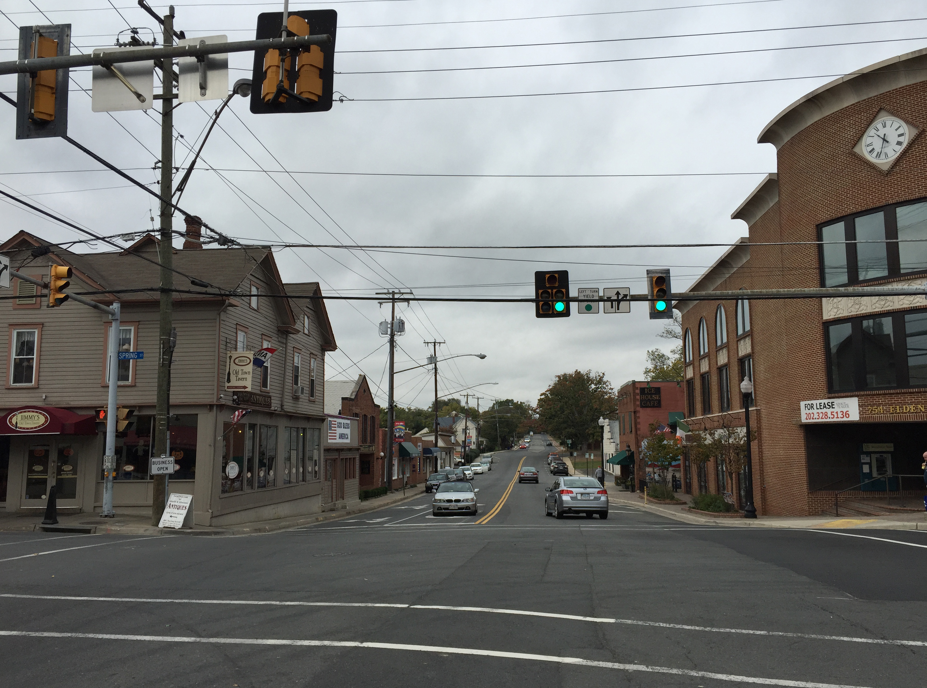 View south along Virginia State Route 228 and west along Virginia State Secondary Route 606 (Elden Street) at Station Street and Spring Street in Herndon, Fairfax County, Virginia